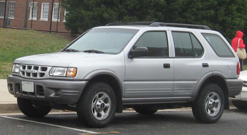 2001-2003 Isuzu Rodeo photographed in College Park, Maryland, USA.